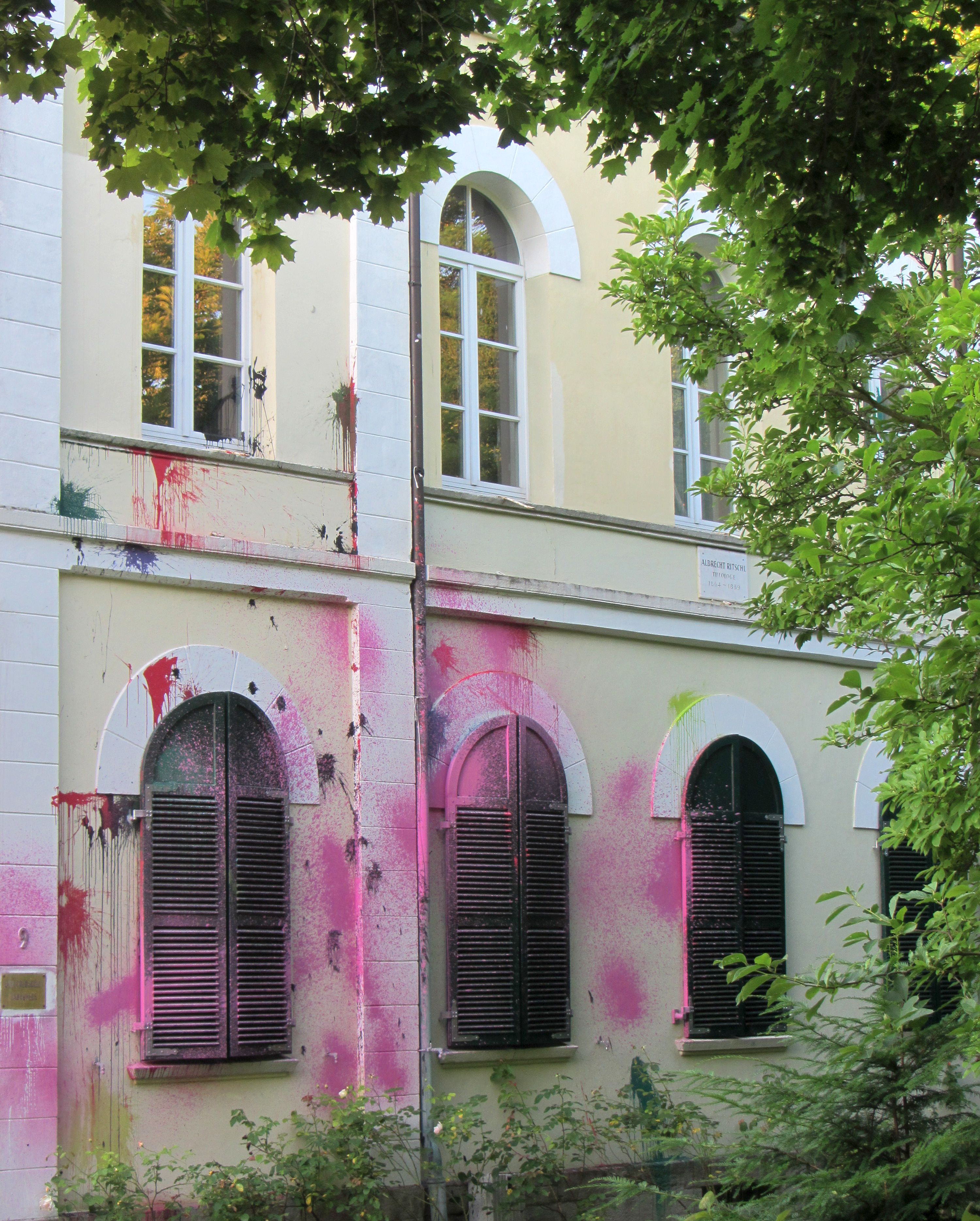 Building of Burschenschaft Hannovera, Göttingen, Germany damaged by paint bombs